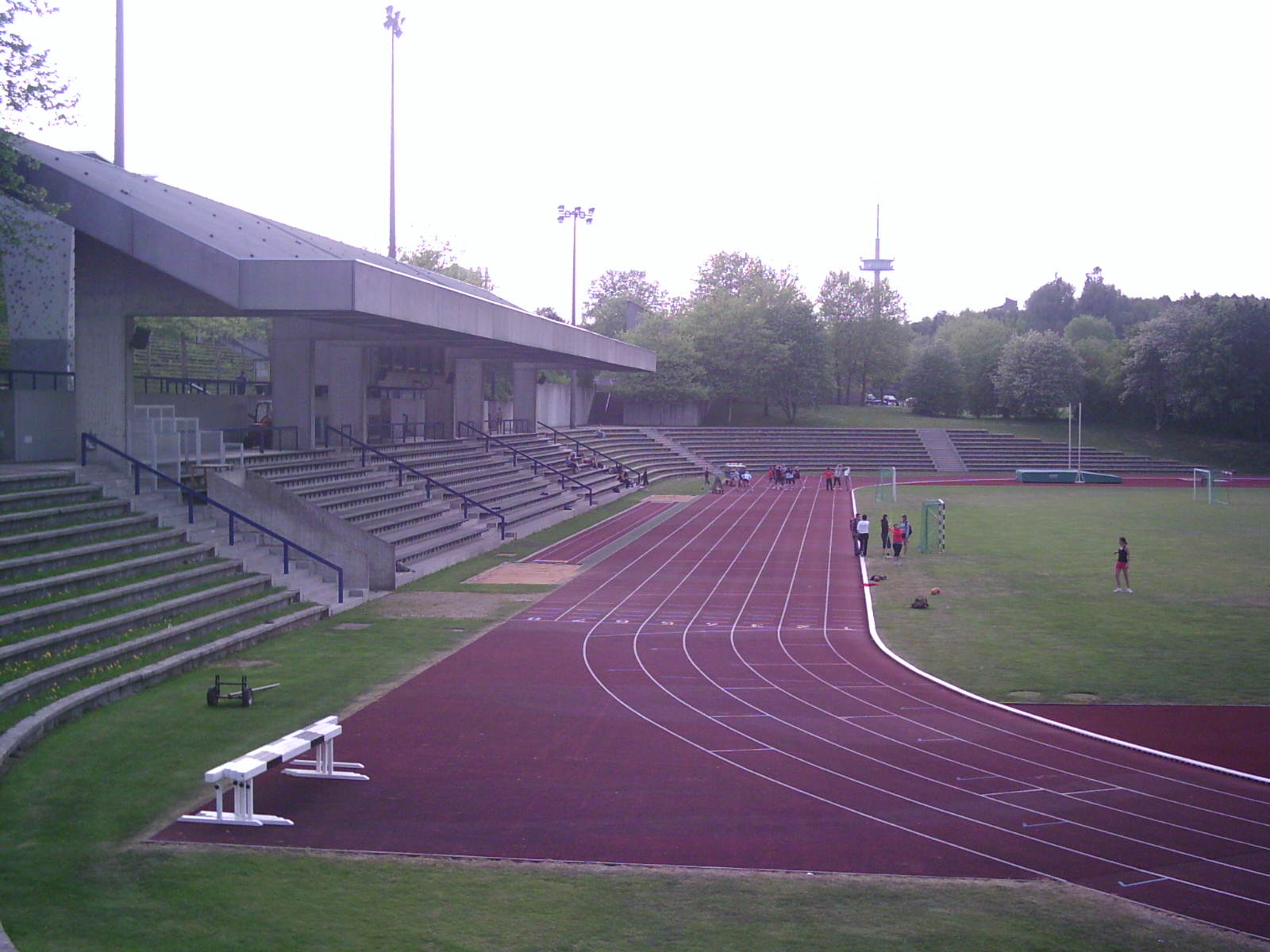 Athletics track/mini-stadium at the Universität Regensburg, Regensburg, Germany.